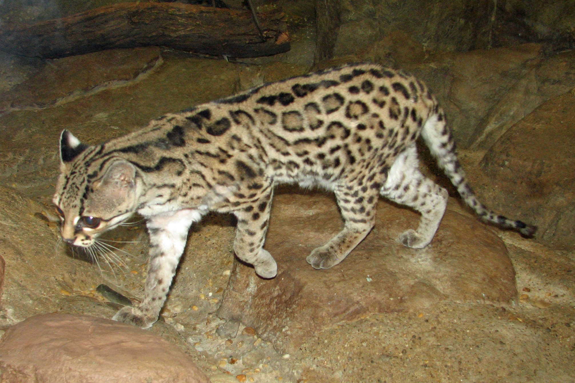 Margay - Leopardus wiedii at Cincinnati Zoo